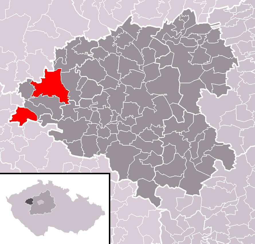 Location of Jesenice town within Rakovník District and (identical) administrative area of Rakovník as a Municipality with Extended Competence. Village of Podbořánky in the southwest is separated from the rest of the municipality by municipalities of Krty, Drahouš and Žďár.